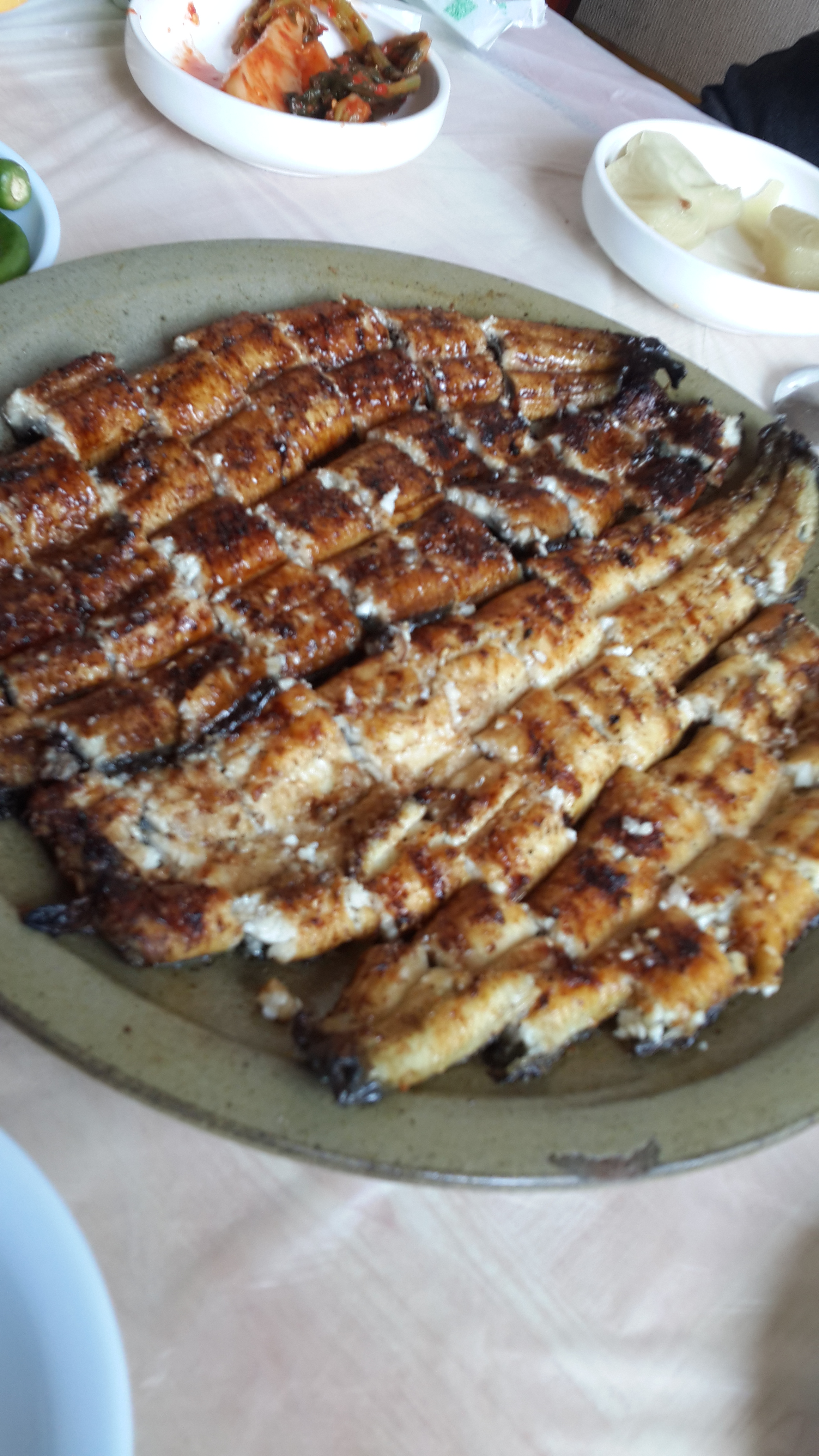 A Korean dish of jangeo gui(장어구이) which refers to the grilled eel. It can be seasoned with only salt or with spicy condiments.